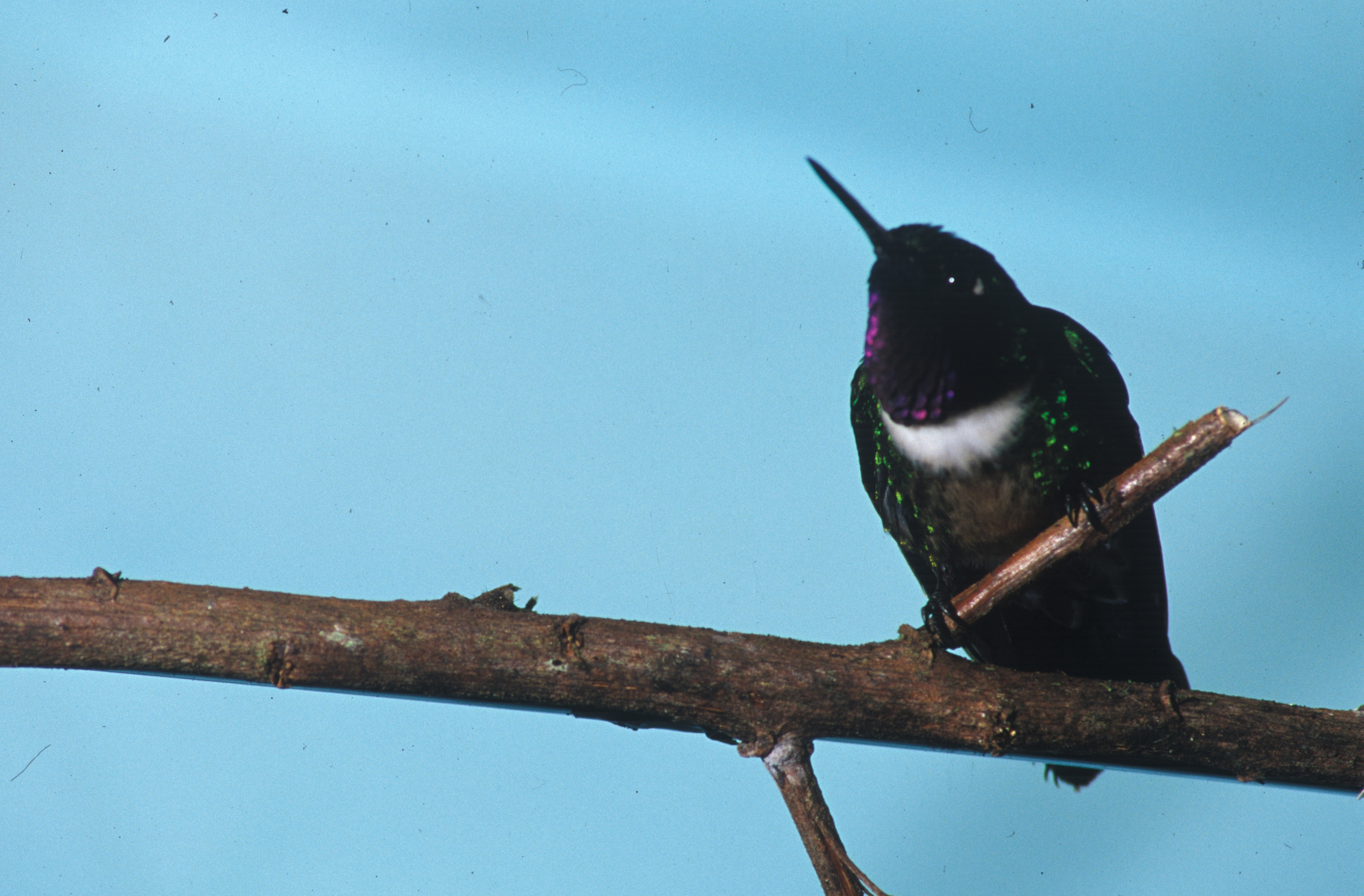 Amethyst-throated Sunangel (Heliangelus amethysticollis) from the NBII Image Gallery. A male photographed at Cordillera del Cóndor, Ecuador.